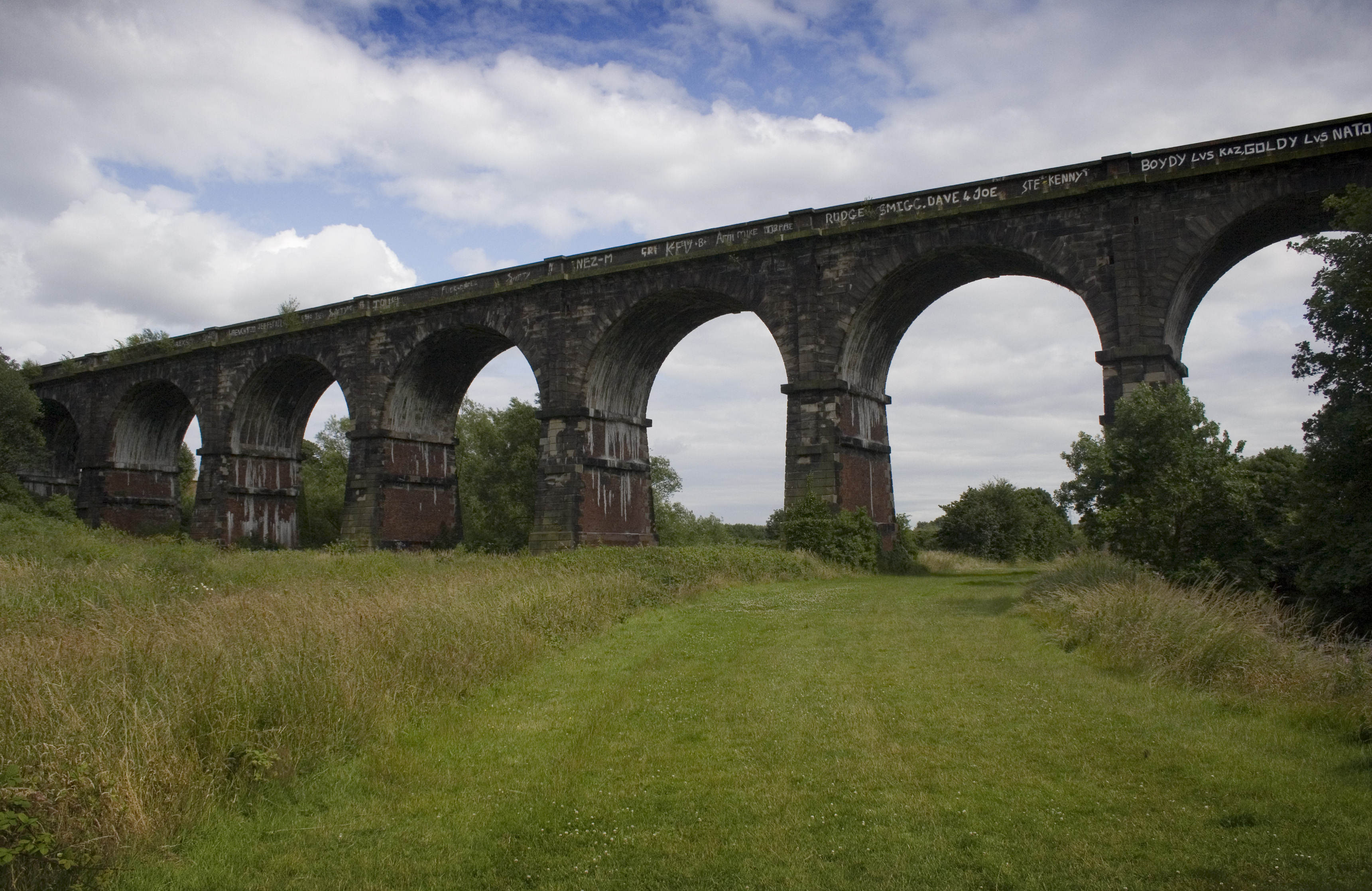 The Sankey Viaduct, pictured looking north